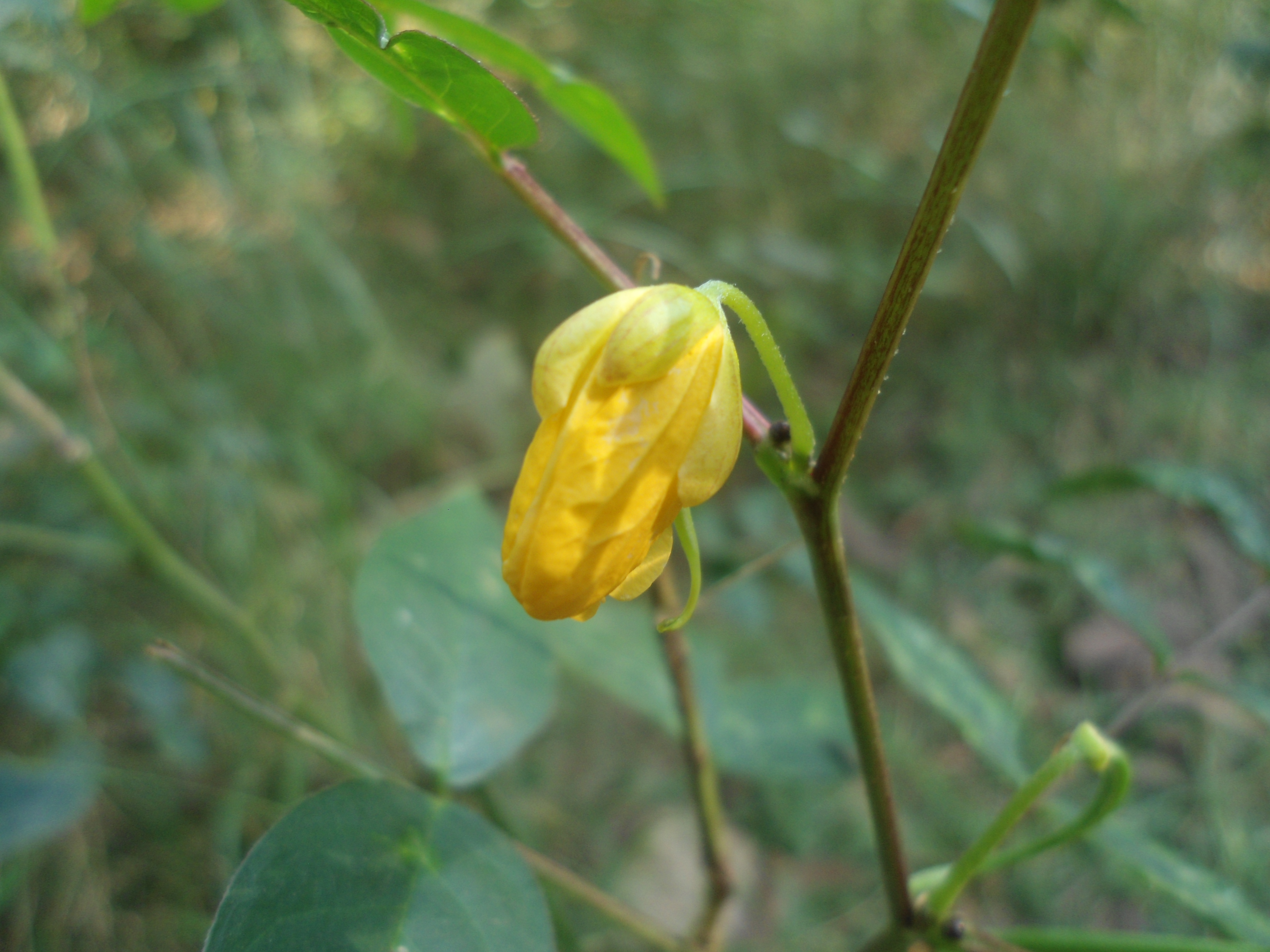 Cassia occidentalis at Kambalakonda Wildlife Sanctuary, Visakhapatnam